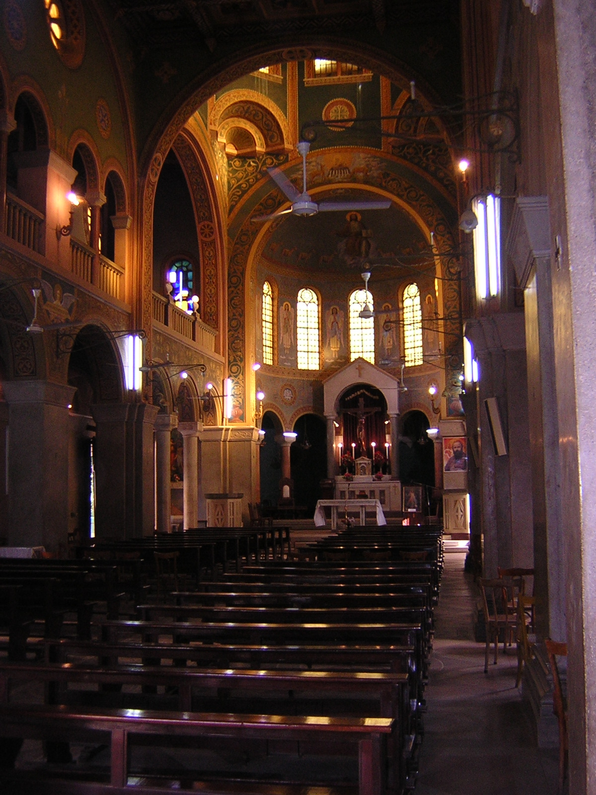 Interior of the St. Matthew's Catholic Cathedral, Khartoum, Sudan.